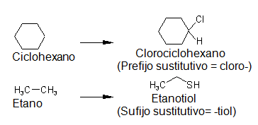 Substitutive nomenclature examples